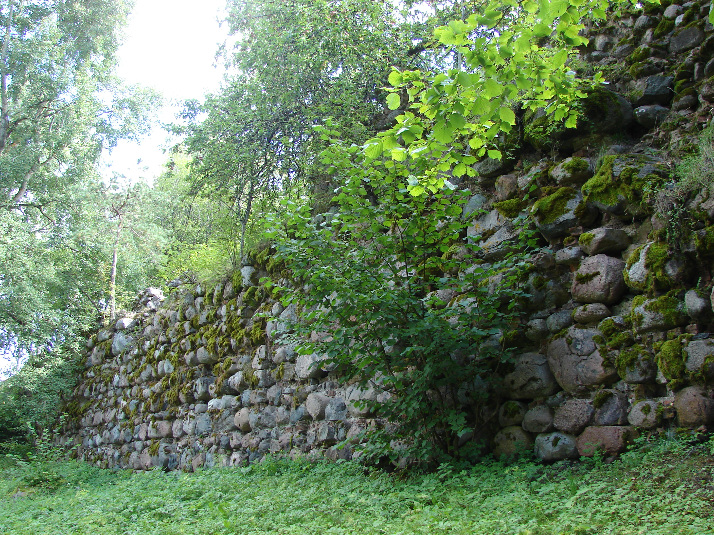 Castle Ruins Wolkenberg